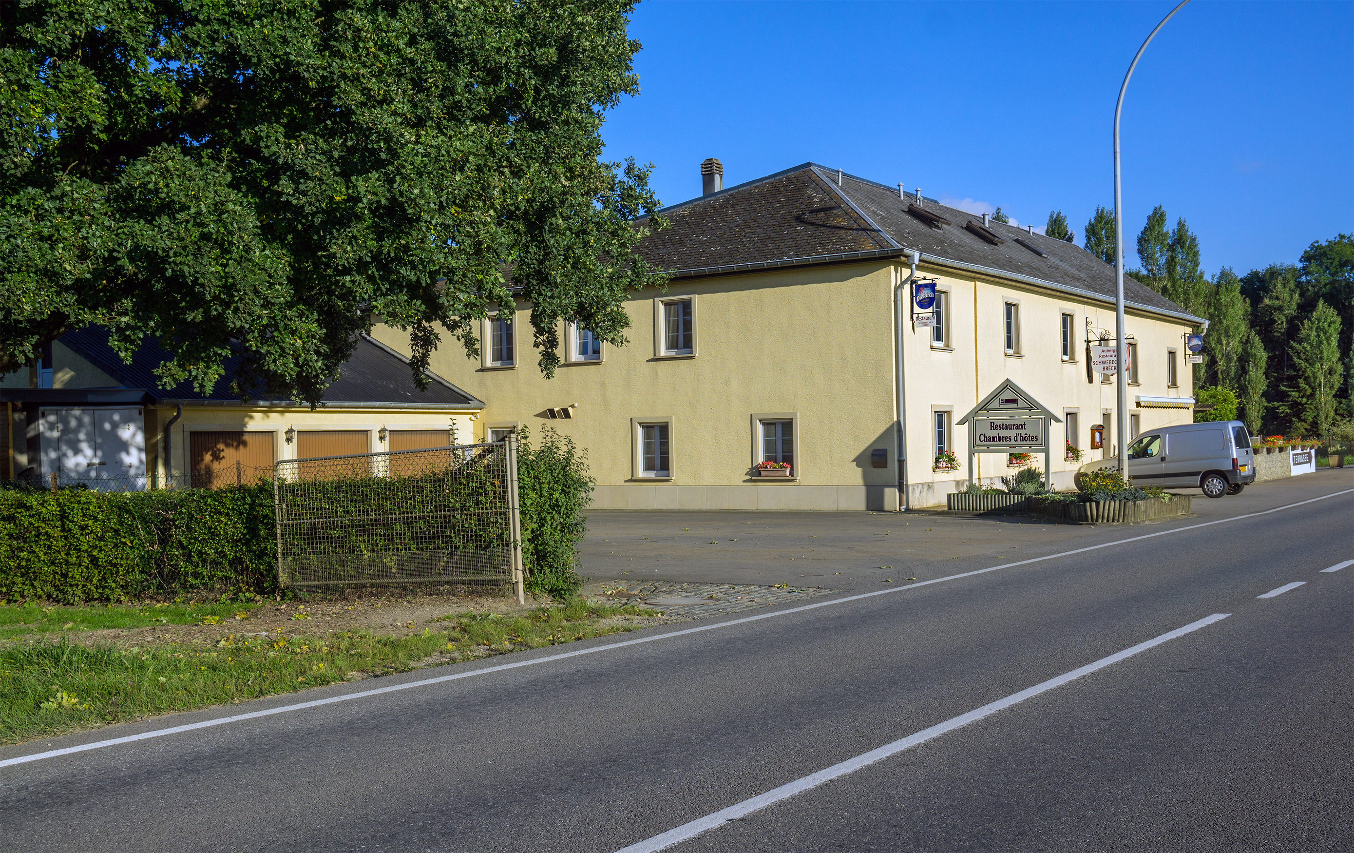 The inn at Schwebach-Pont